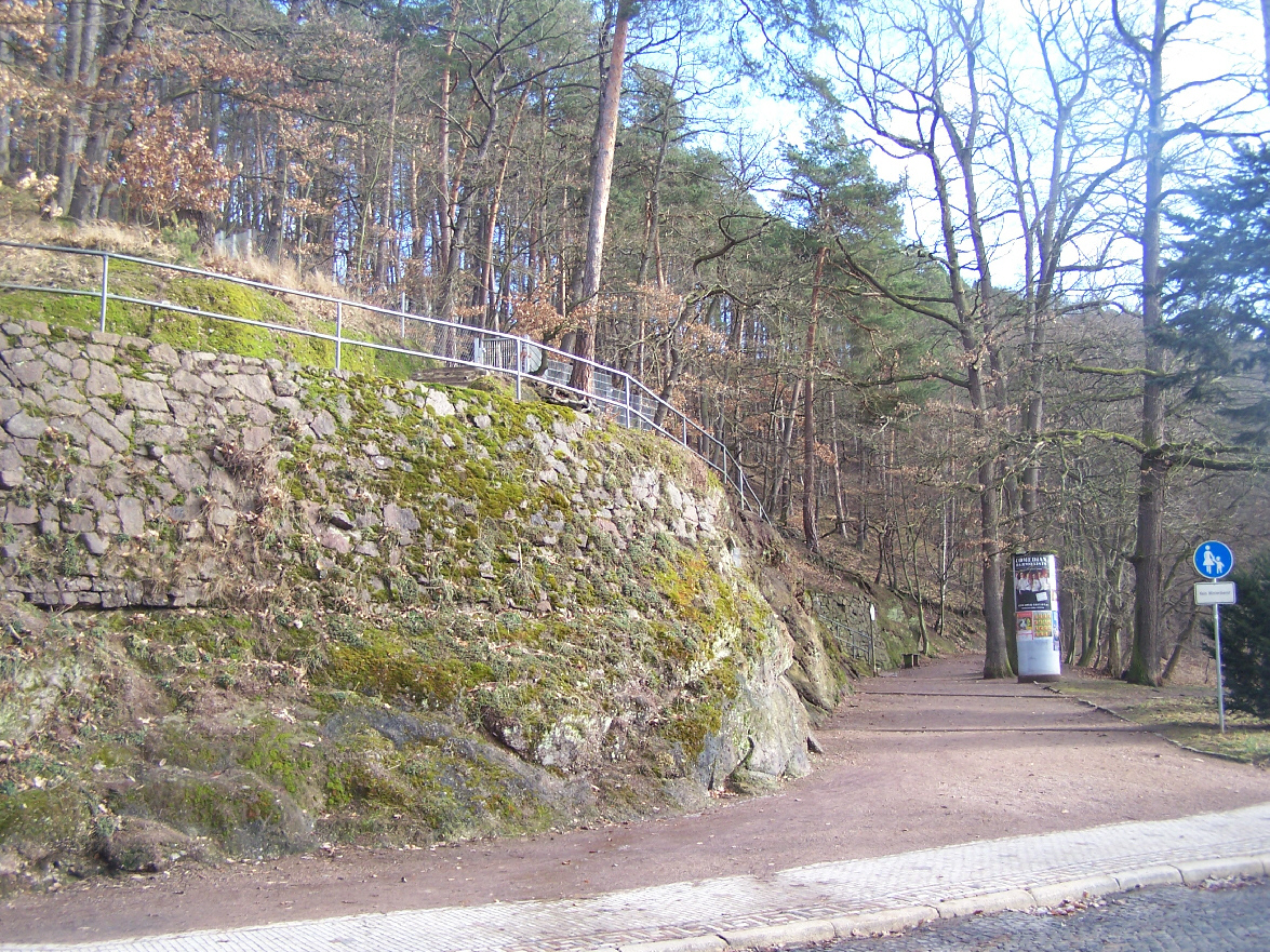 At the Feodora promenade in Eisenach.